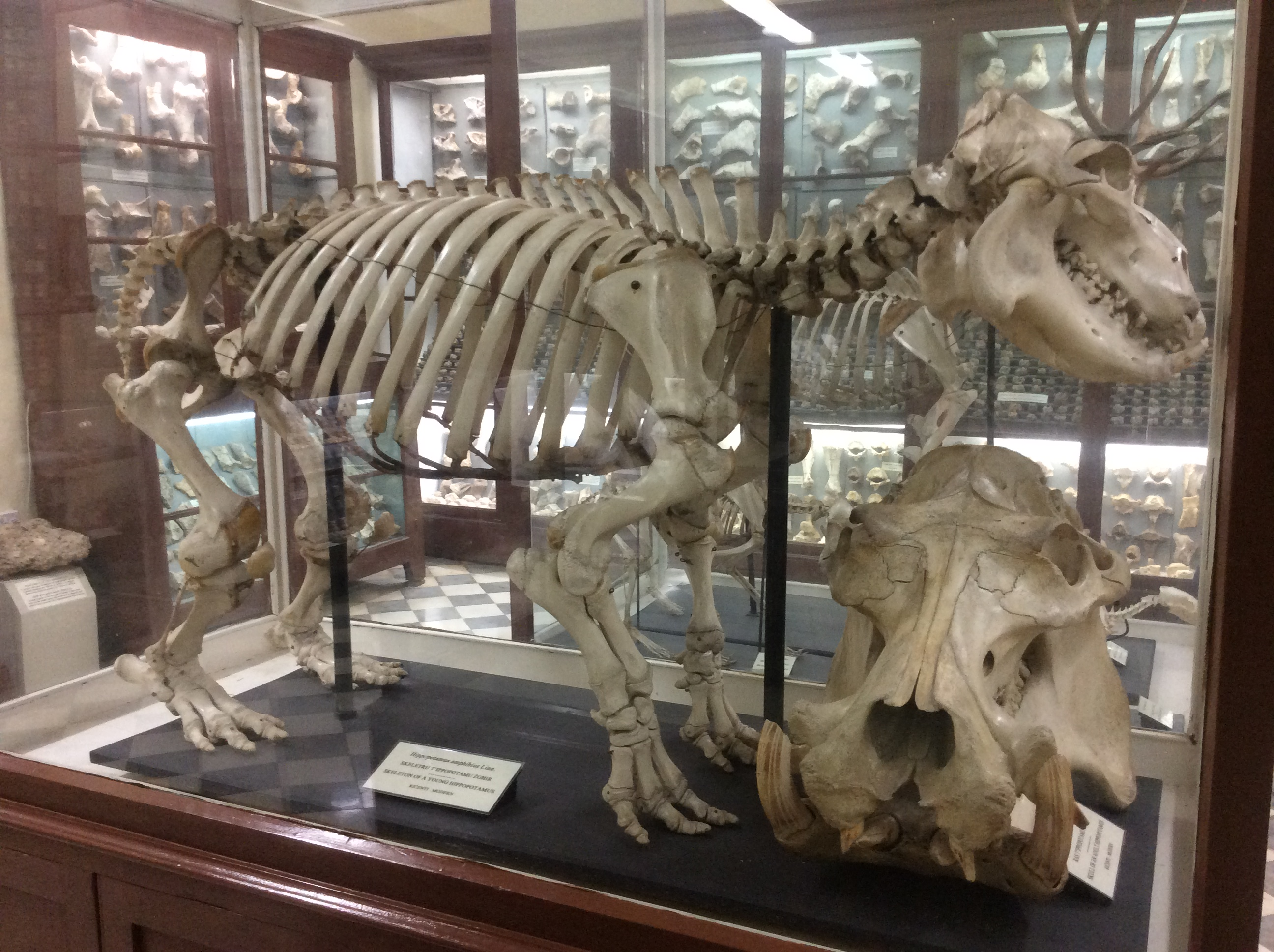 Għar Dalam Cave This media is about Maltese cultural property with inventory number 00029.